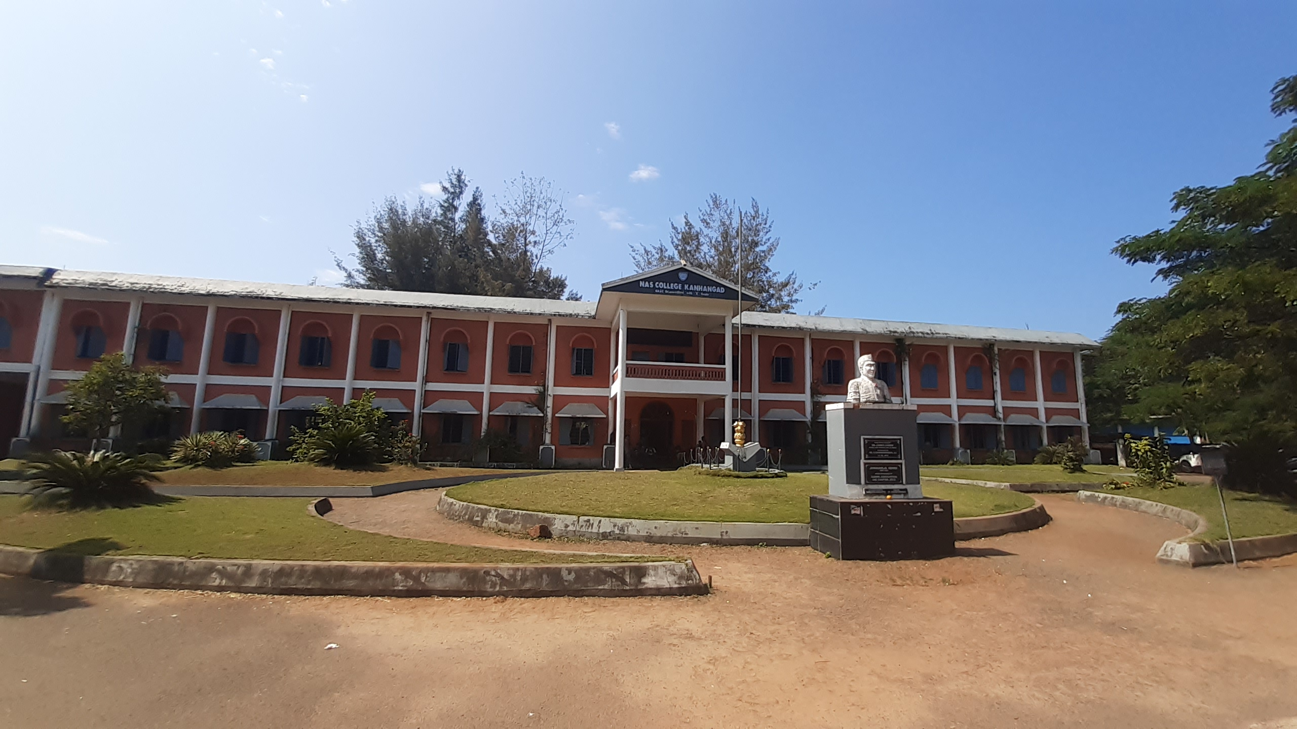 Nehru College, Kanjangad, Kasaragodu